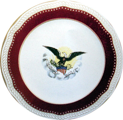 Abraham Lincoln White House china